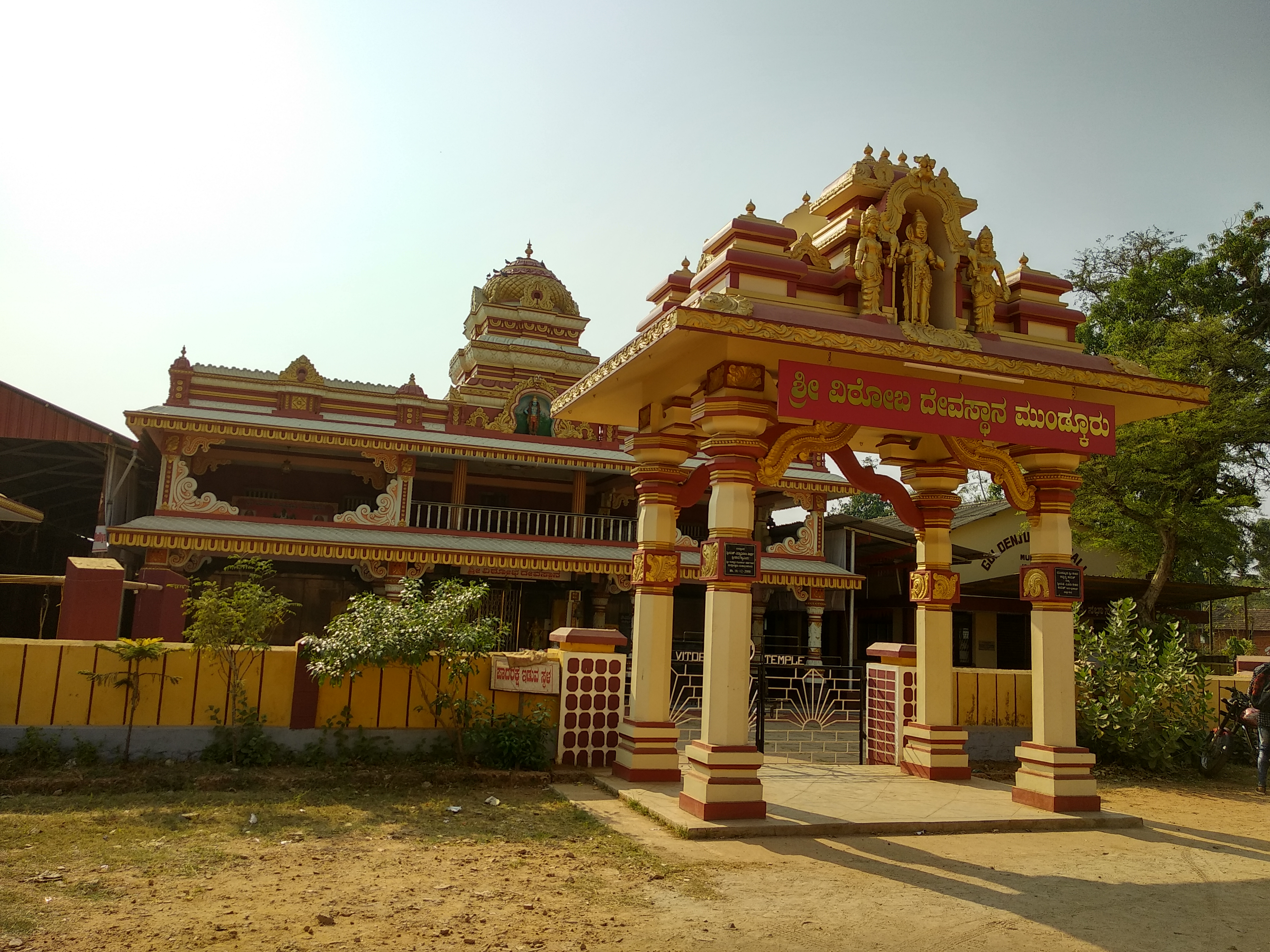 Mundkur Village, Karkal Taluk Udupi district, Karnataka India ಕನ್ನಡ: ಮುಂಡ್ಕೂರು ಗ್ರಾಮ, ಕಾರ್ಕಳ ತಾಲೂಕು ಉಡುಪಿ ಜಿಲ್ಲೆ, ಕರ್ನಾಟಕ